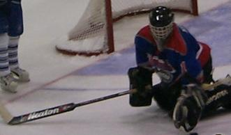 Released images of 1998 game between the Durham Huskies and Markham Waxers.